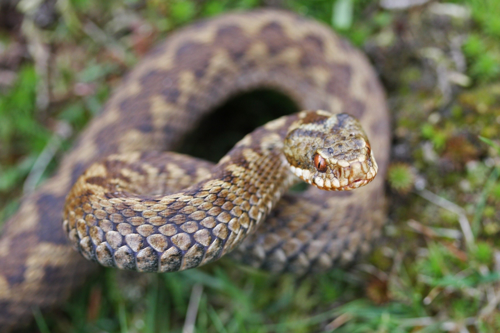 This female adder was basking in the sunshine on Thursley common in Surrey.